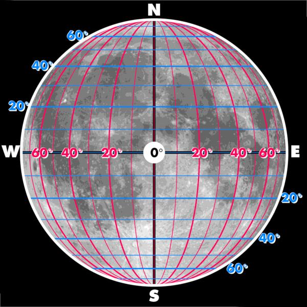 Coordinate map of the Moon. This is a bold exposition of Selenographic coordinates and is not intended to show accurate locations of lunar features.